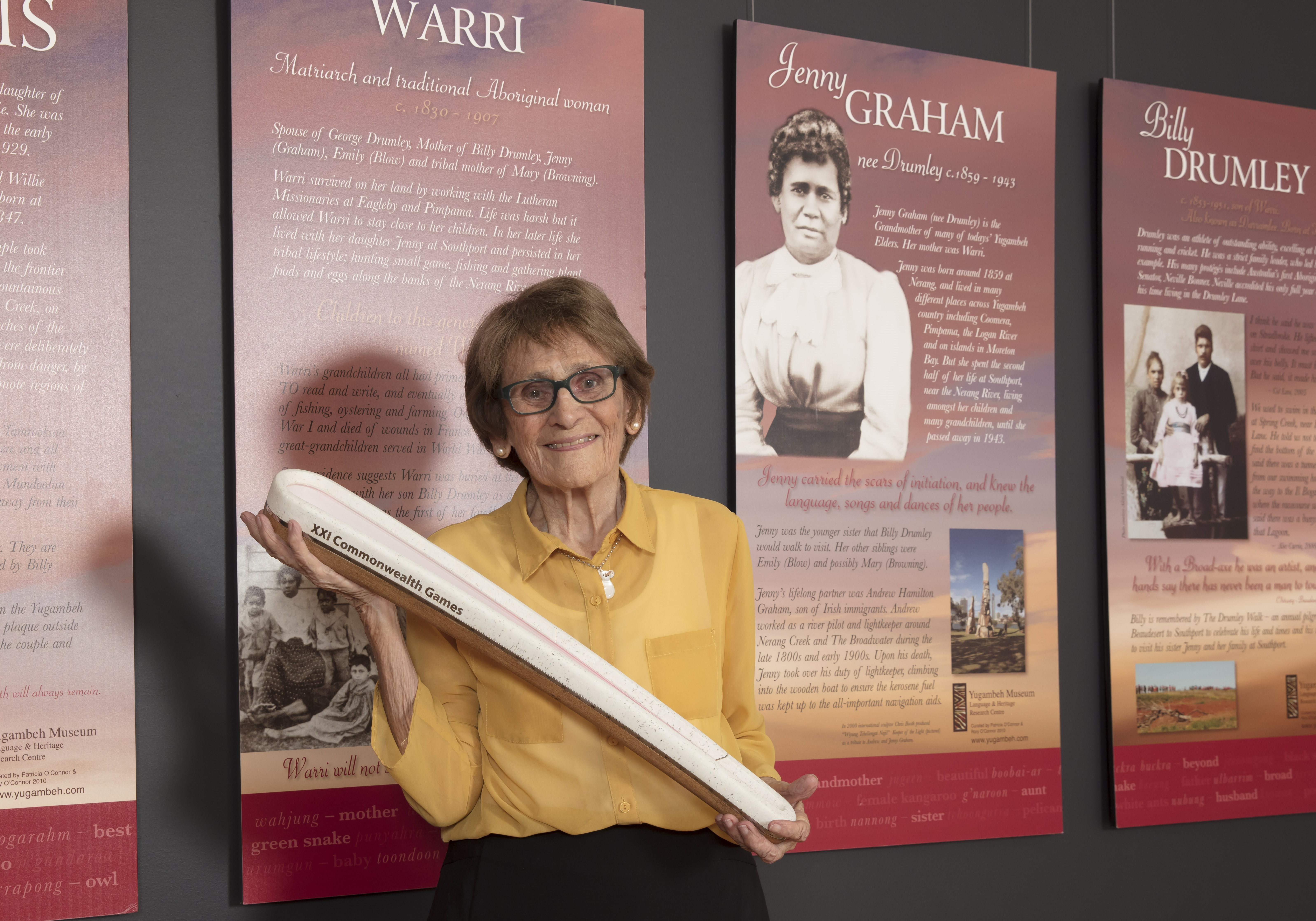 Patricia O'Connor, Yugambeh Senior Elder, with the Queen's Baton, picture taken at Yugambeh Museum